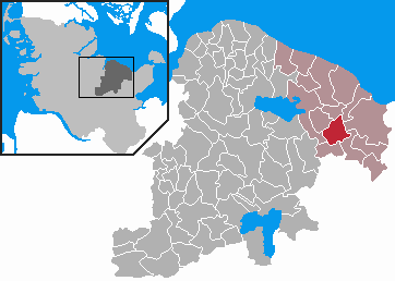 This map shows the area of the Gemeinde (municipality) Helmstorf in the Kreis (district) Plön, Schleswig-Holstein, Germany.